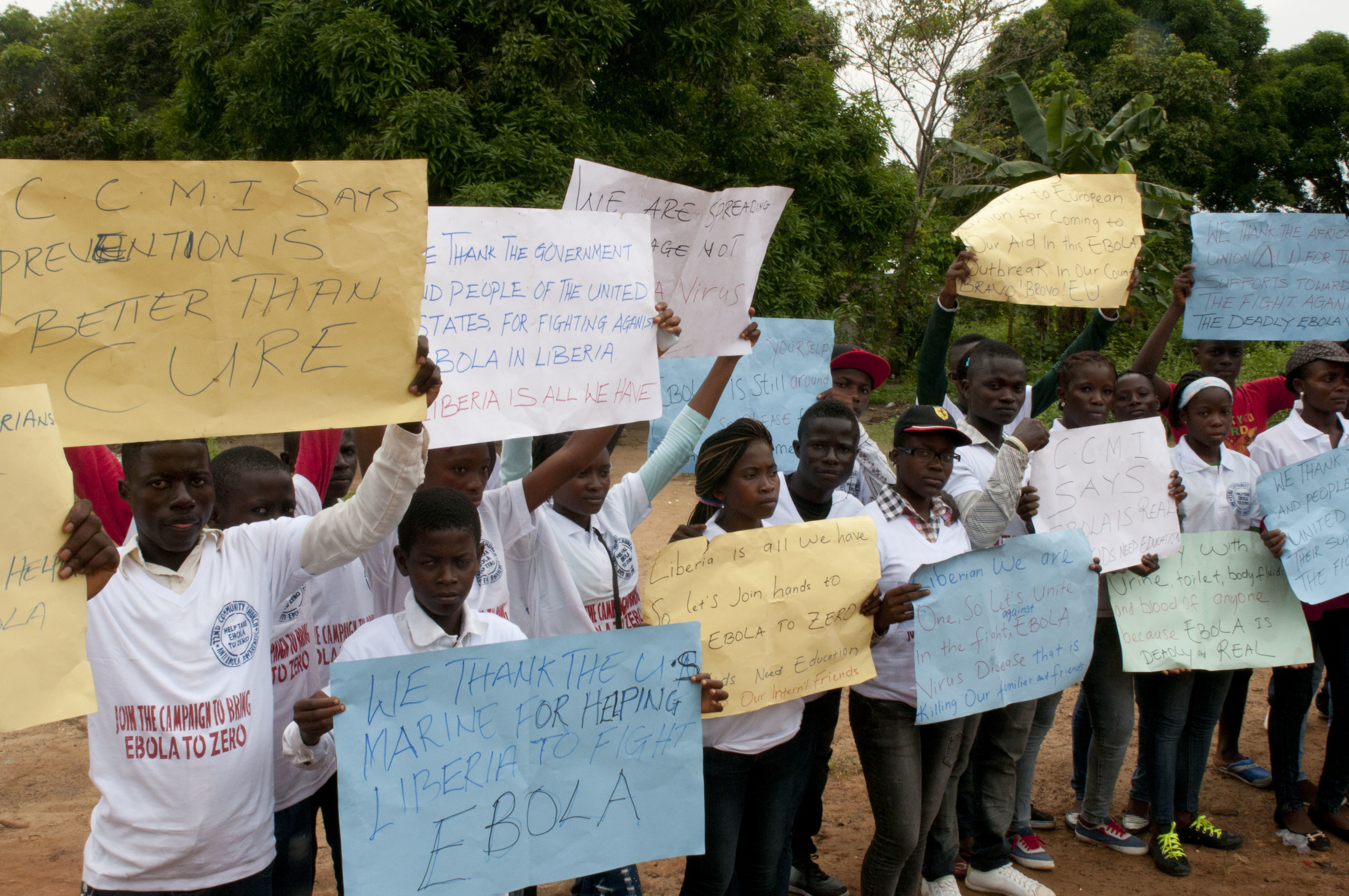 Members of the 72nd Community Church in Liberia show their appreciation to U.S. Soldiers for their role in fighting Ebola on Dec. 6, 2014, at the National Police Training Academy, Paynesville, Liberia. They held up signs and chanted “Take Ebola down to zero!” Operation United Assistance is a Department of Defense operation in Liberia to provide logistics, training and engineering support to U.S. Agency for International Development-led efforts to contain the Ebola virus outbreak in western Africa. (U.S. Army photo by Capt. Eric Hudson, 7th Mobile Public Affairs Detachment/RELEASED)